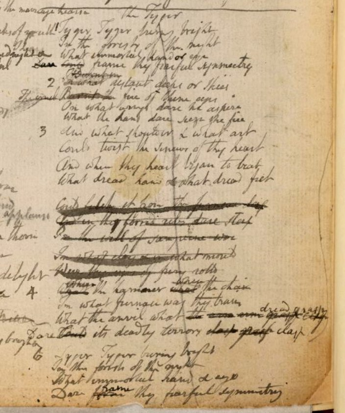 Blake manuscript - Notebook 25 - Tyger - 1st draft